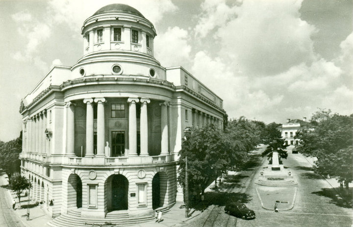 Iasi (Jassy), Romania, Copou Blvd.